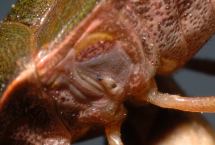 Detail of metathorax in Palomena prasina (Rhynchota: Pentatomidae): efferent of scent gland and evaporative area.